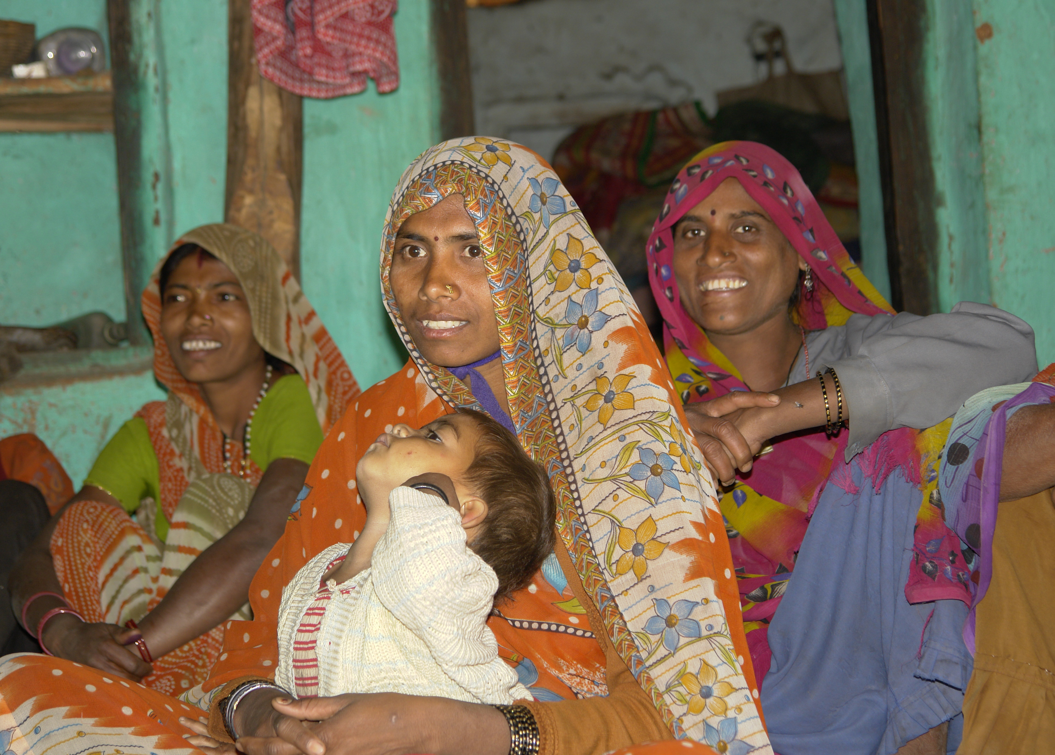 Women in Raisen district, M.P., India.